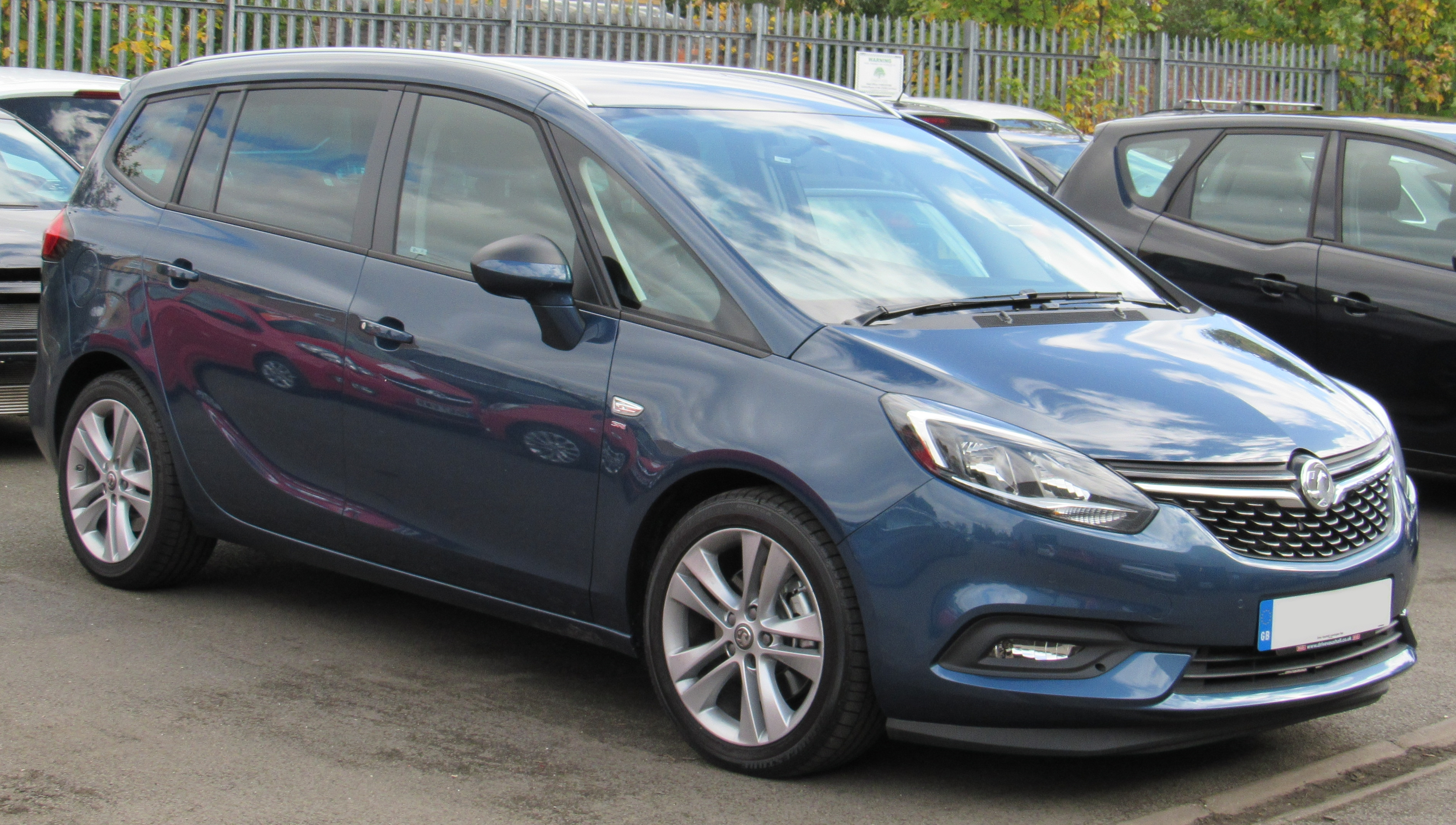 2017 Vauxhall Zafira Tourer SRi CDTi 2.0 Front Taken in Warwick